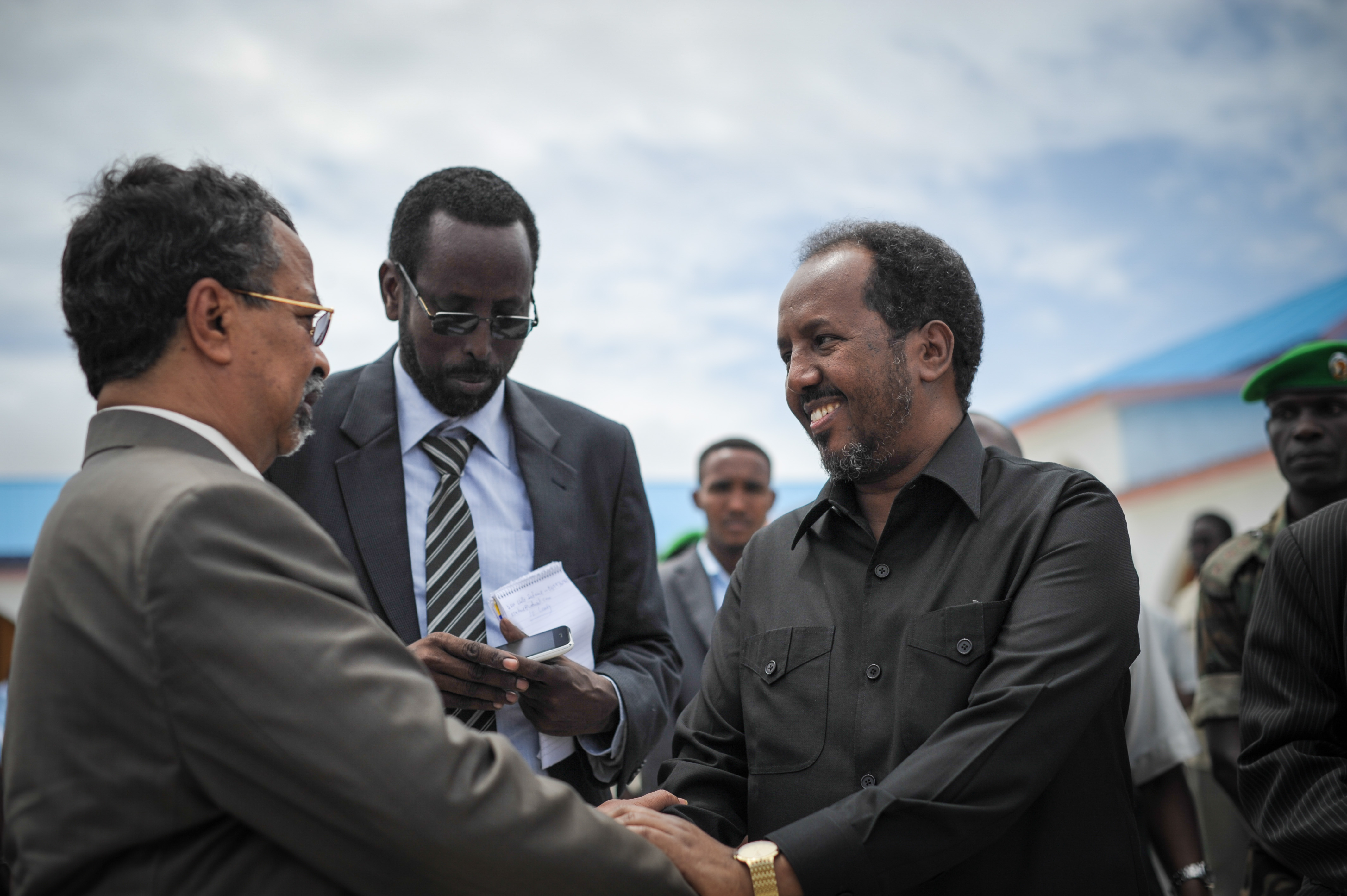 2013_08_22_School_Handover_Condtruction_+_Opening_014